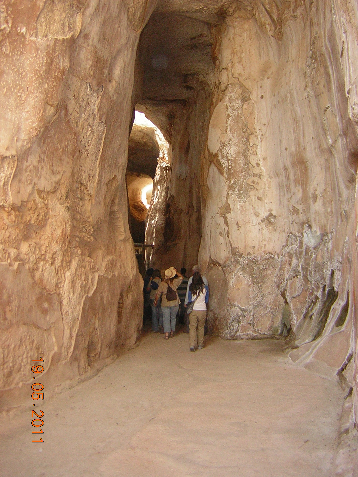 Sepphoris